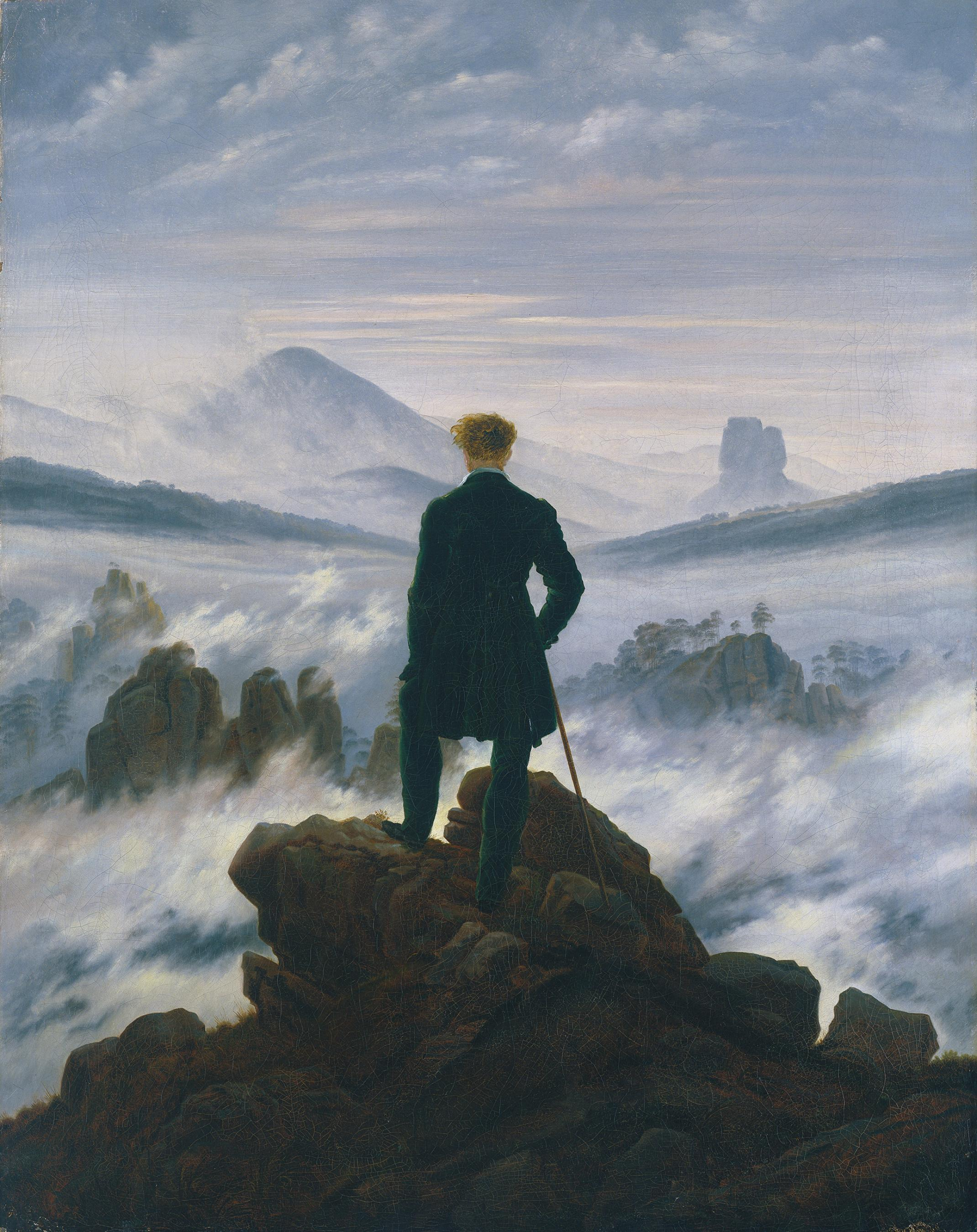 The hiker stands as a back figure in the center of the composition. He looks down on an almost impenetrable sea of ​​fog in the midst of a rocky landscape - a metaphor for life as an ominous journey into the unknown.